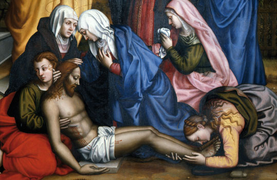 Plautilla Nelli's Painting